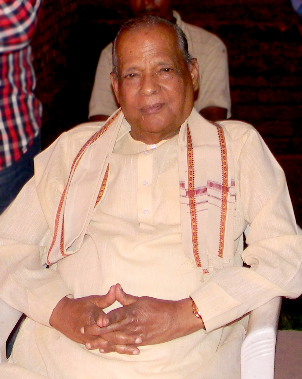 J B Patnaik, Governor of Assam A leader of the Indian National Congress, he was Chief Minister of Odisha from 1980 to 1989 and again from 1995 to 1999. This media file is uploaded with Odia loves Wikipedia